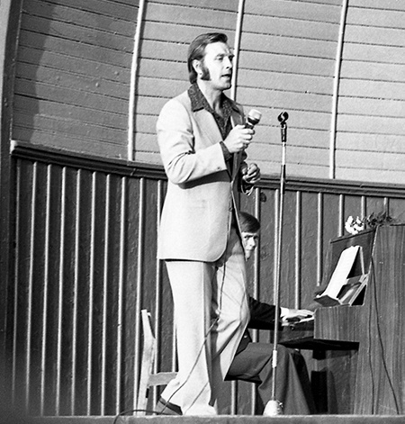 Photograph of Estonian singer Uno Loop (born 1930) performing in 1974.